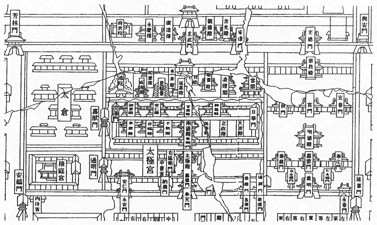 Chang'an tubei (長安圖碑) - Stone momument which depicts the city of Chang'an, drawn by Lue Dafang (呂大防) in 1080.